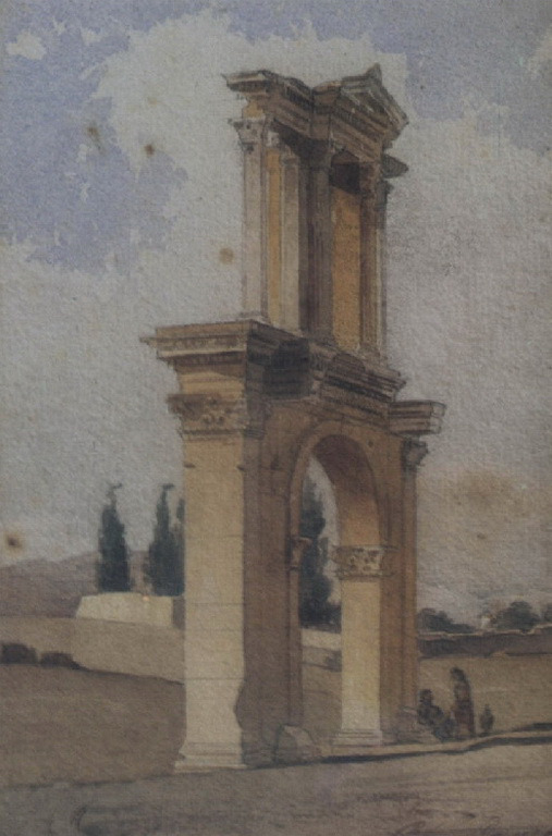 Gate of Adrian, Athens